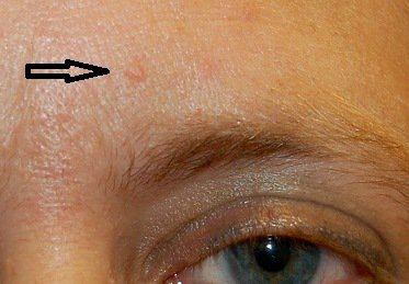 Photograph of a small, raised lesion on an individual's forehead. Trichilemmomas are benign tumors arising from the outer cells of the hair follicle. They are commonly found on the head and face, as shown.